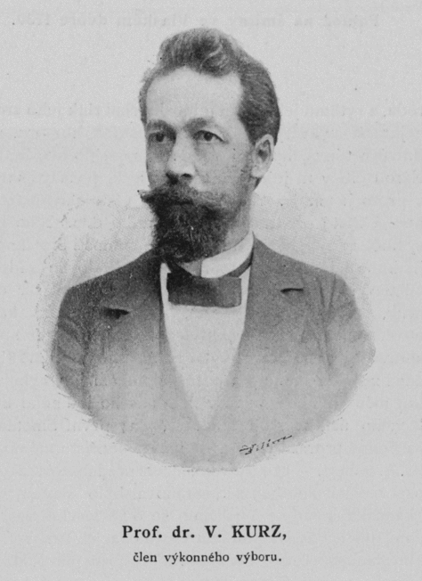 Portrait of Vilém Kurz Sr. (1847-1902), Czech writer and politician. Shown as a committee member of Czech & Slavonic Ethnographic Exhibition in Prague 1895.